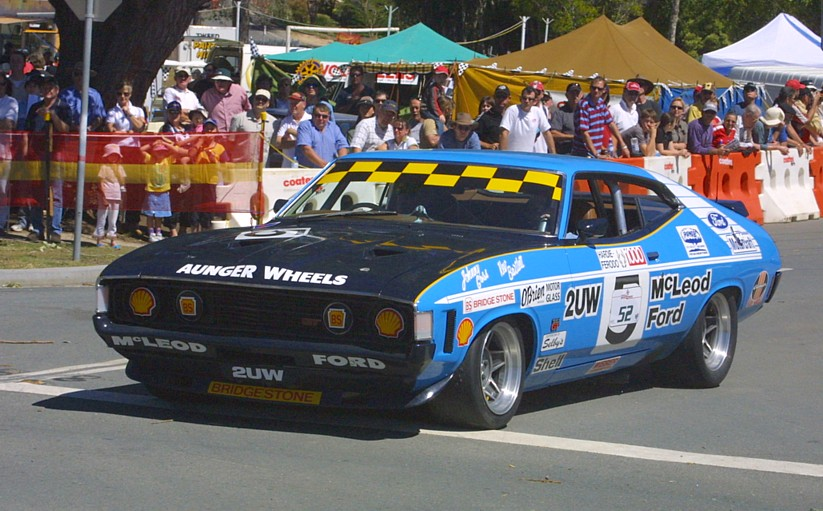 John Goss's reproduction of his 1974 Bathurst 1000 winner